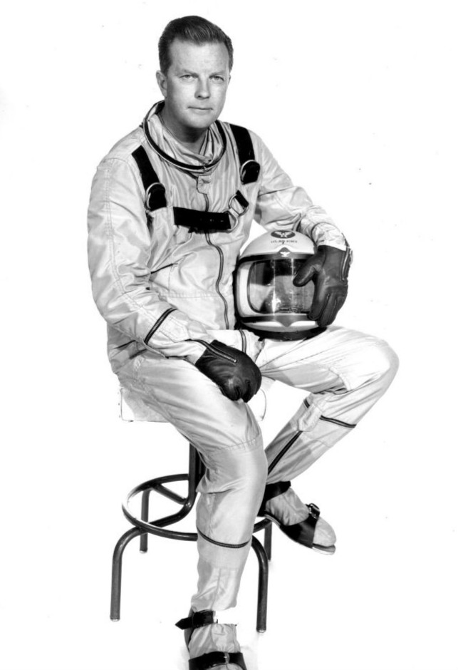 Photo of William Lundigan as Edward McCauley from the television program Men into Space.